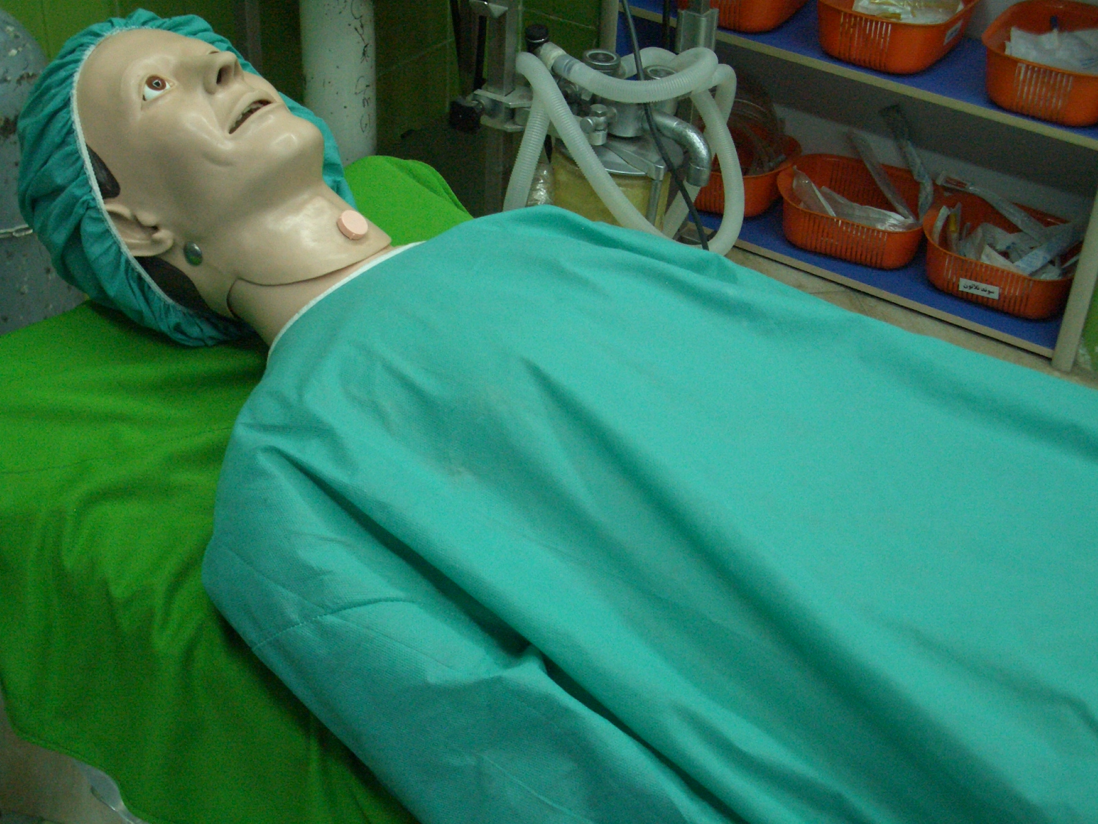 The supine position is a position of the body: lying down with the face up, as opposed to the prone position, which is face down, sometimes with the hands behind the head or neck.